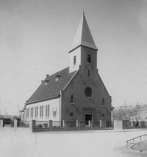 Maastricht, the Netherlands. View of the former Dutch Reformed Church at Sterreplein in 1931. The church had been built 5 years previously.